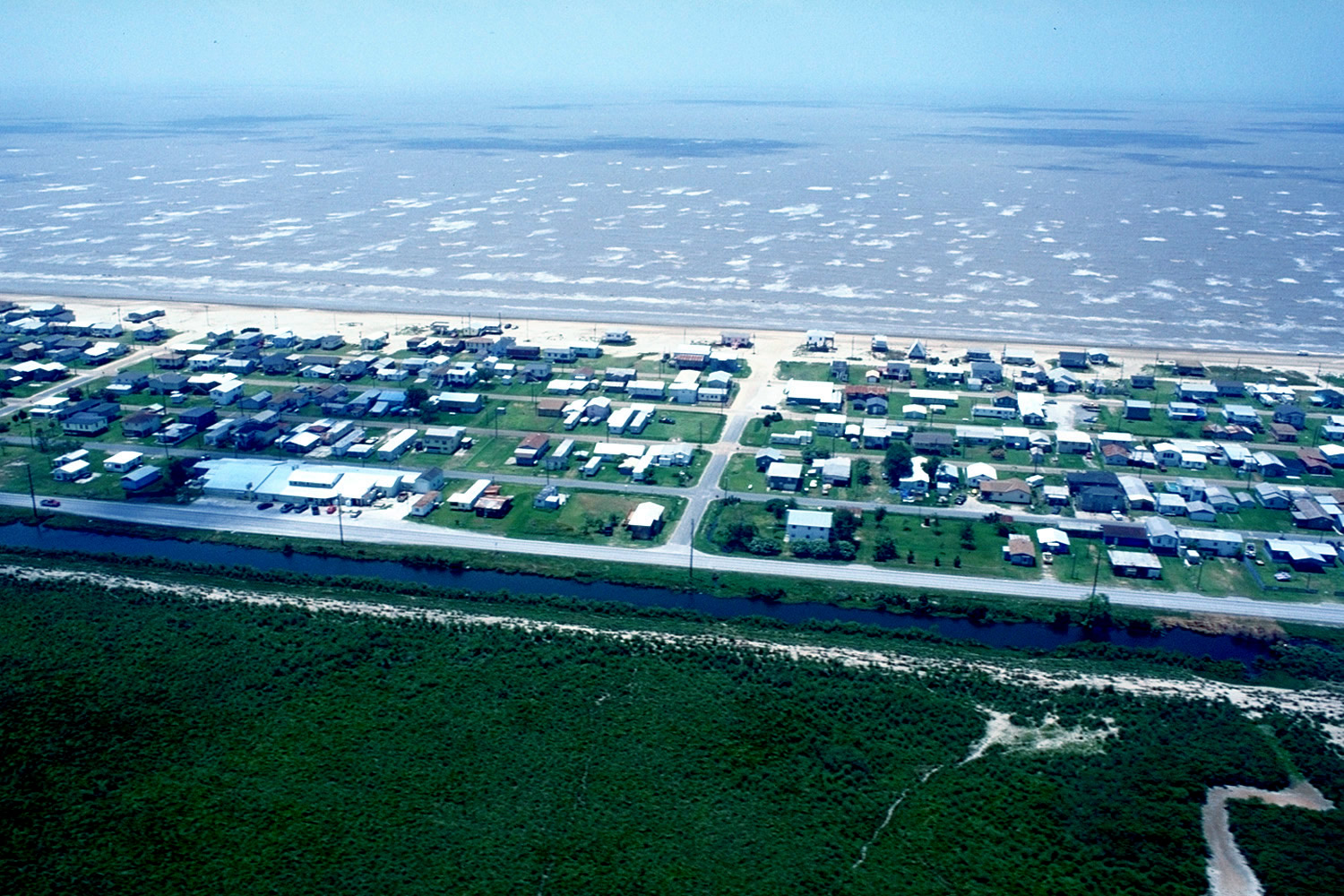 Aerial view of Holly Beach, Louisiana, USA, before complete destruction by hurricanes of 2005. Photograph color-corrected by contributor.